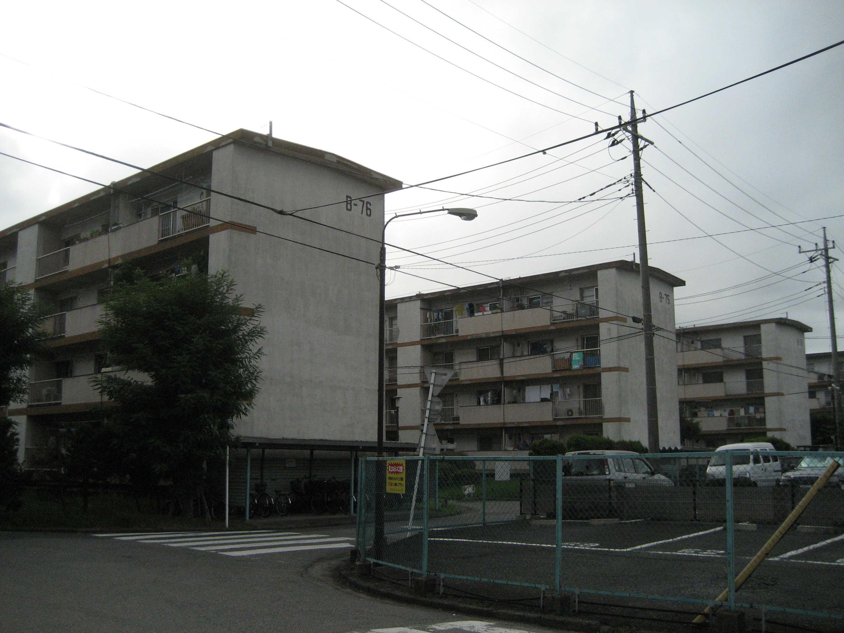 Matsubara Danchi housing complex